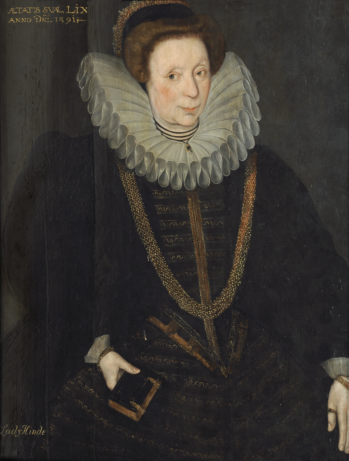 Portrait of Lady Jane Hynde, née Verney.